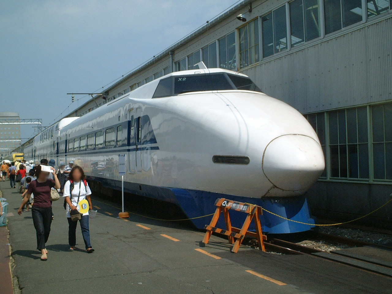 Preserved 100 series shinkansen car 123-1 (formerly of set X2) at JR Central's Hamamatsu Works